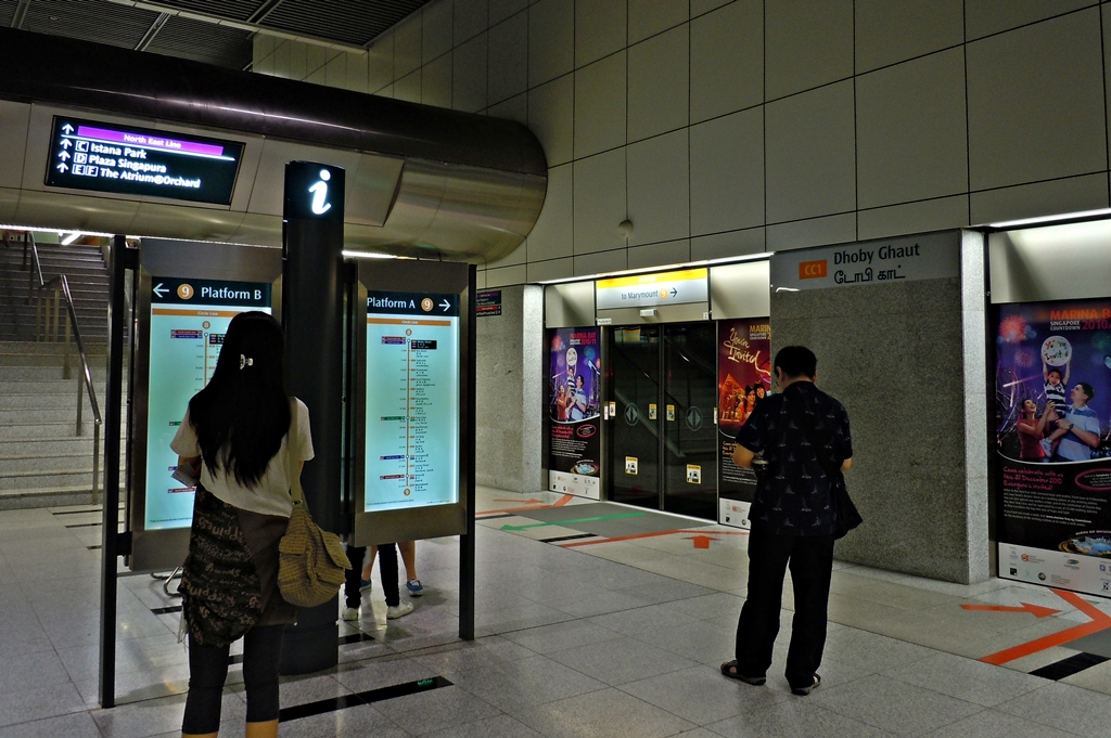 Featuring Dhoby Ghaut CCL